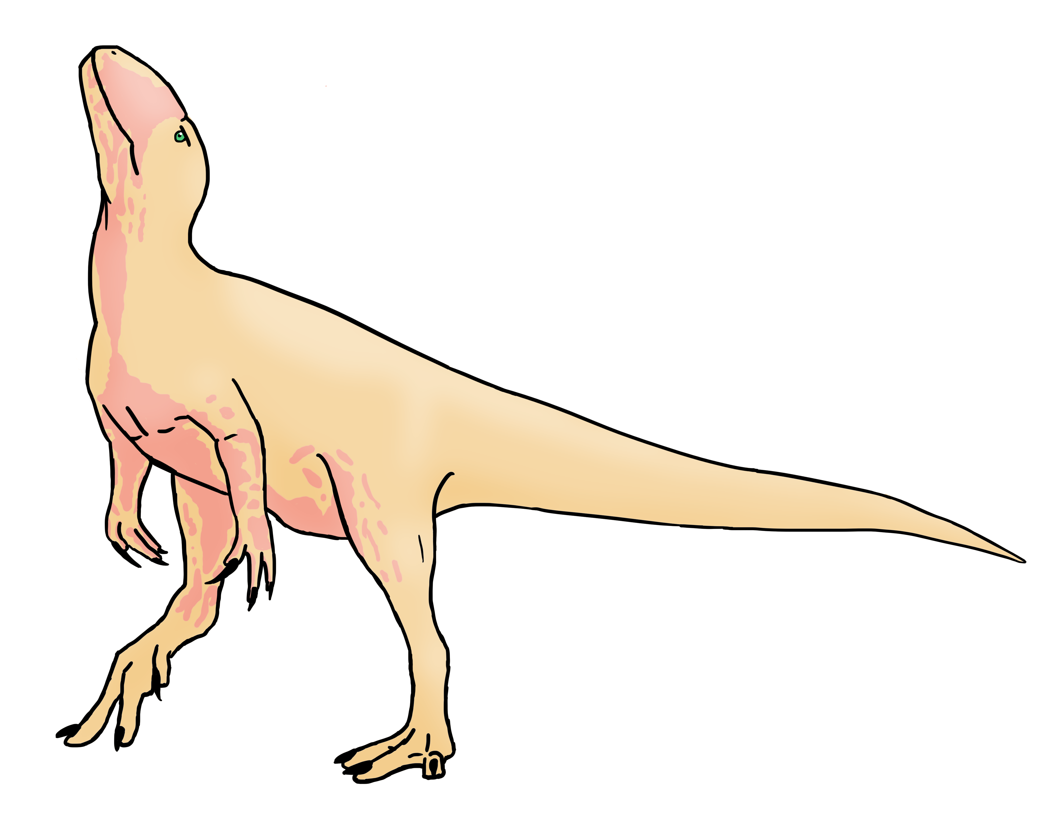 An improved version of an existing reconstruction of the Cretaceous Nigerien carcharodontosaurid, Eocarcharia dinops.